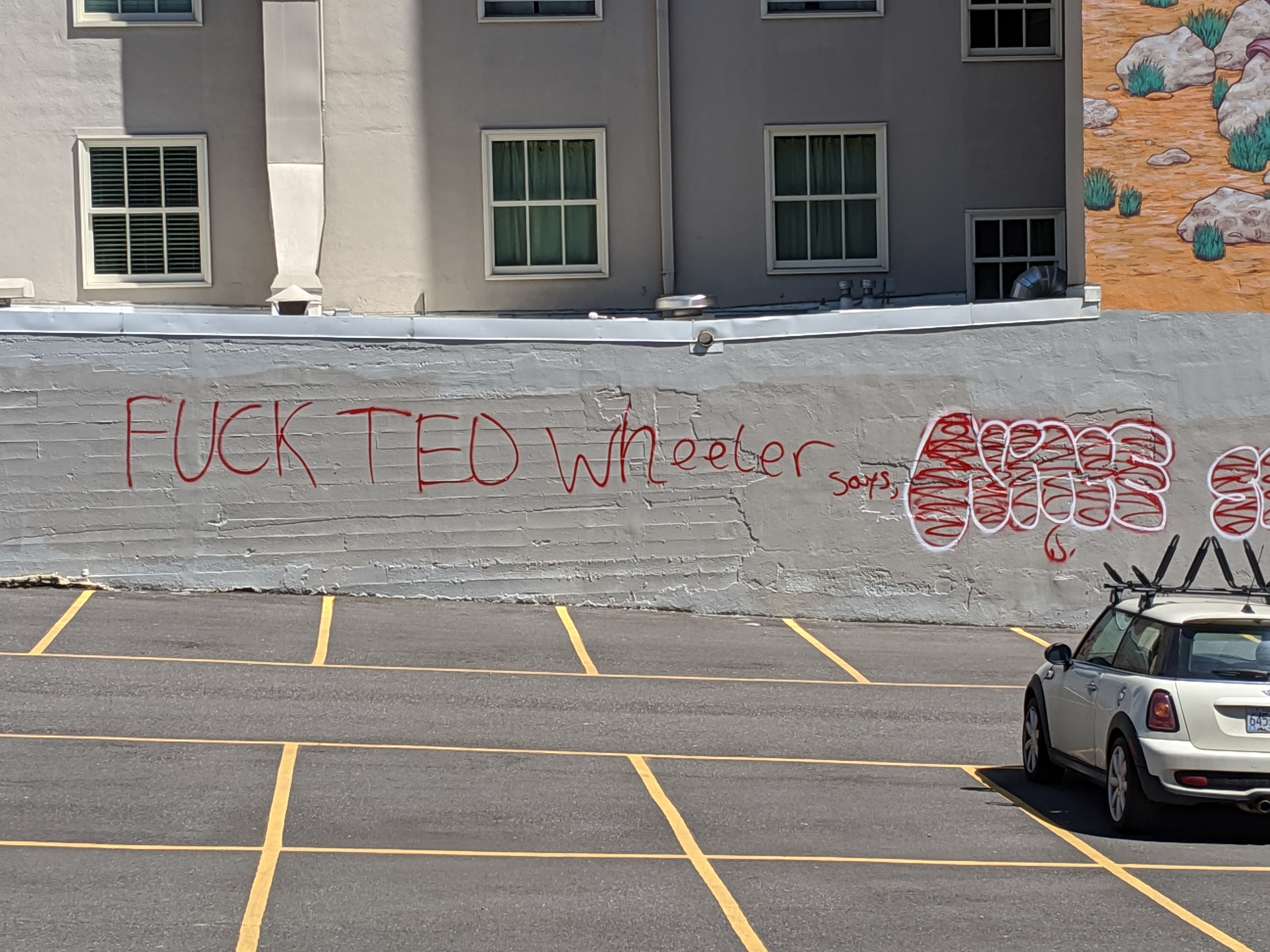 Graffiti expressing discontent with Portland, Oregon mayor Ted Wheeler during the 2020 George Floyd protests in Portland, Oregon, painted on wall of Odd Fellows Building (Portland, Oregon).